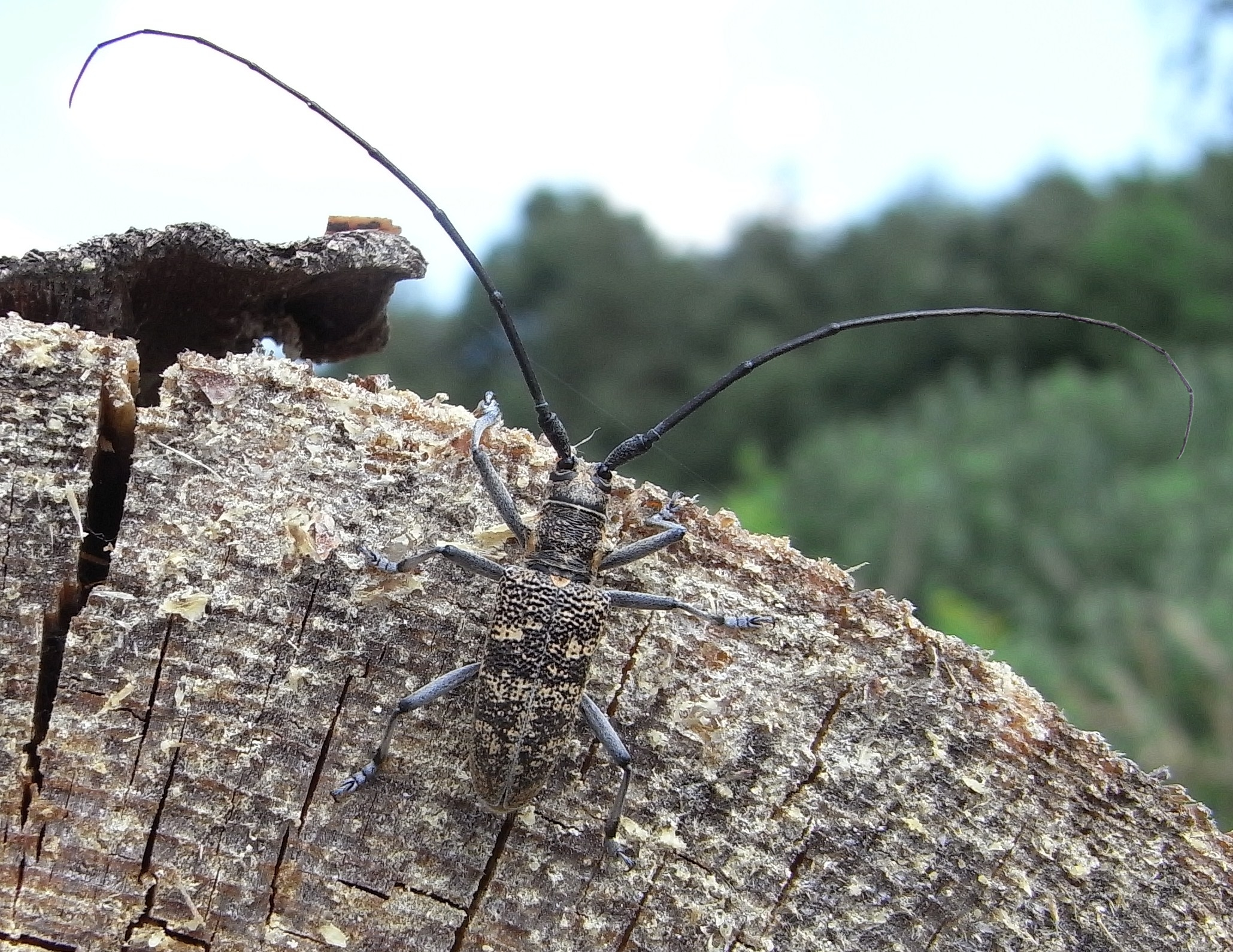 Monochamus galloprovincialis from West-Hungary near Öriszentpeter at 2010-07-21Ricoh R8